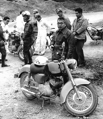 Genichi Kawakami, Yamaha Corporation's president (1950–1977, 1980–1983) and the founder of Yamaha Motor Company